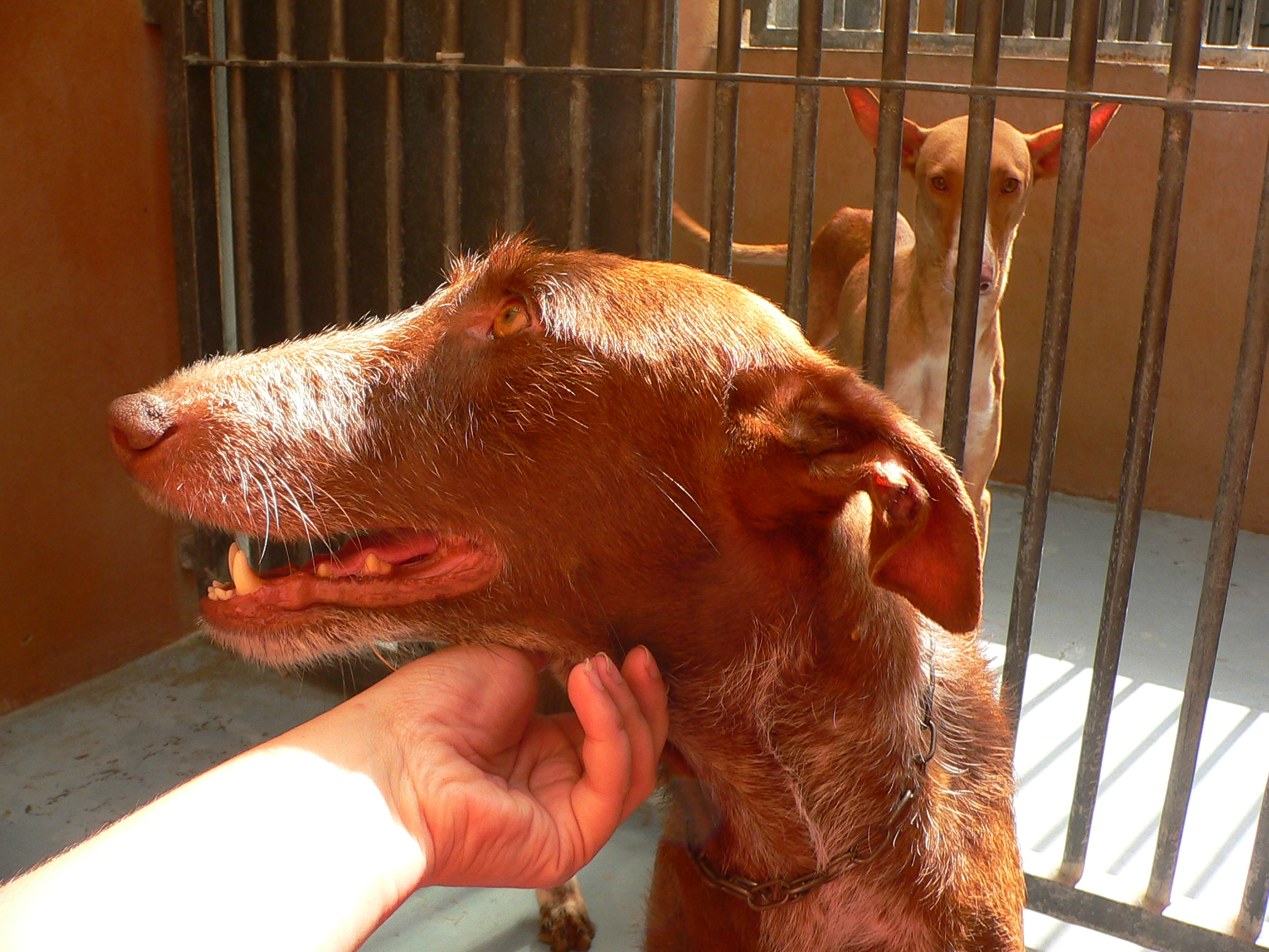 Female long haired podenco canario (front) and female short-haired one, both at the dog pound of Gran Canaria, in Bañaderos.